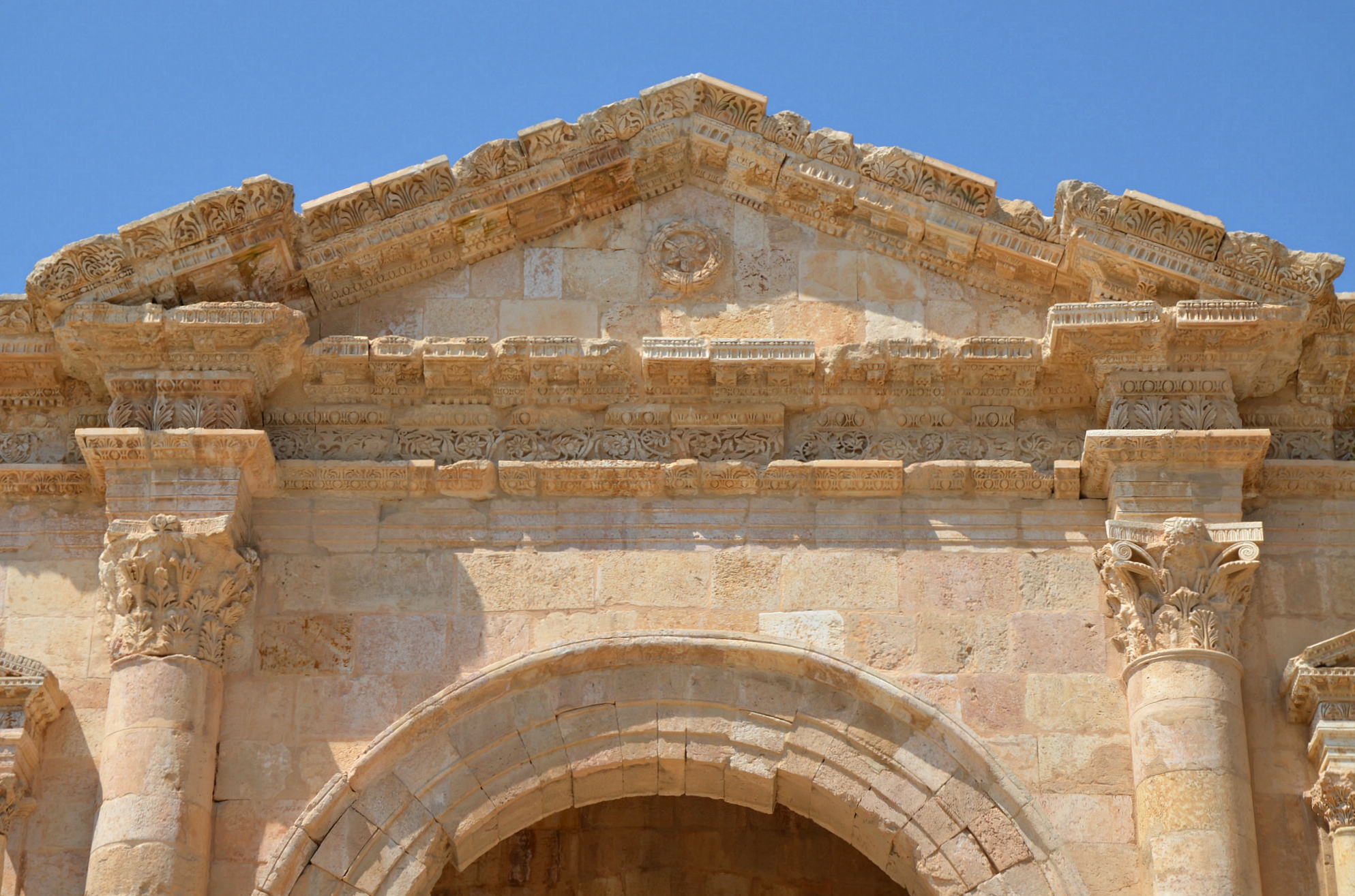 Hadrian’s Arch, a triple-bay monument built to commemorate the visit of the Emperor Hadrian to Gerasa in 129/130 AD, Jerash, Jordan